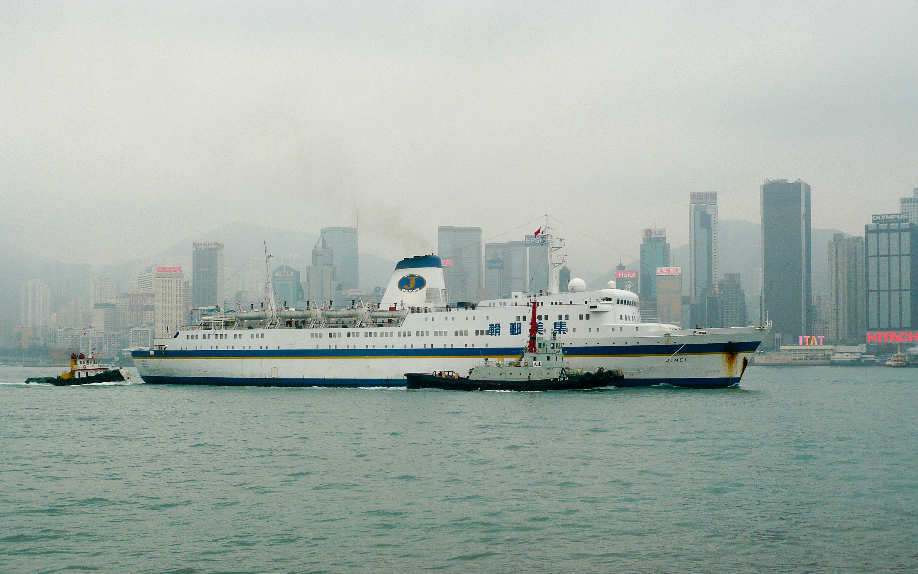 Victoria Harbour, Hong Kong